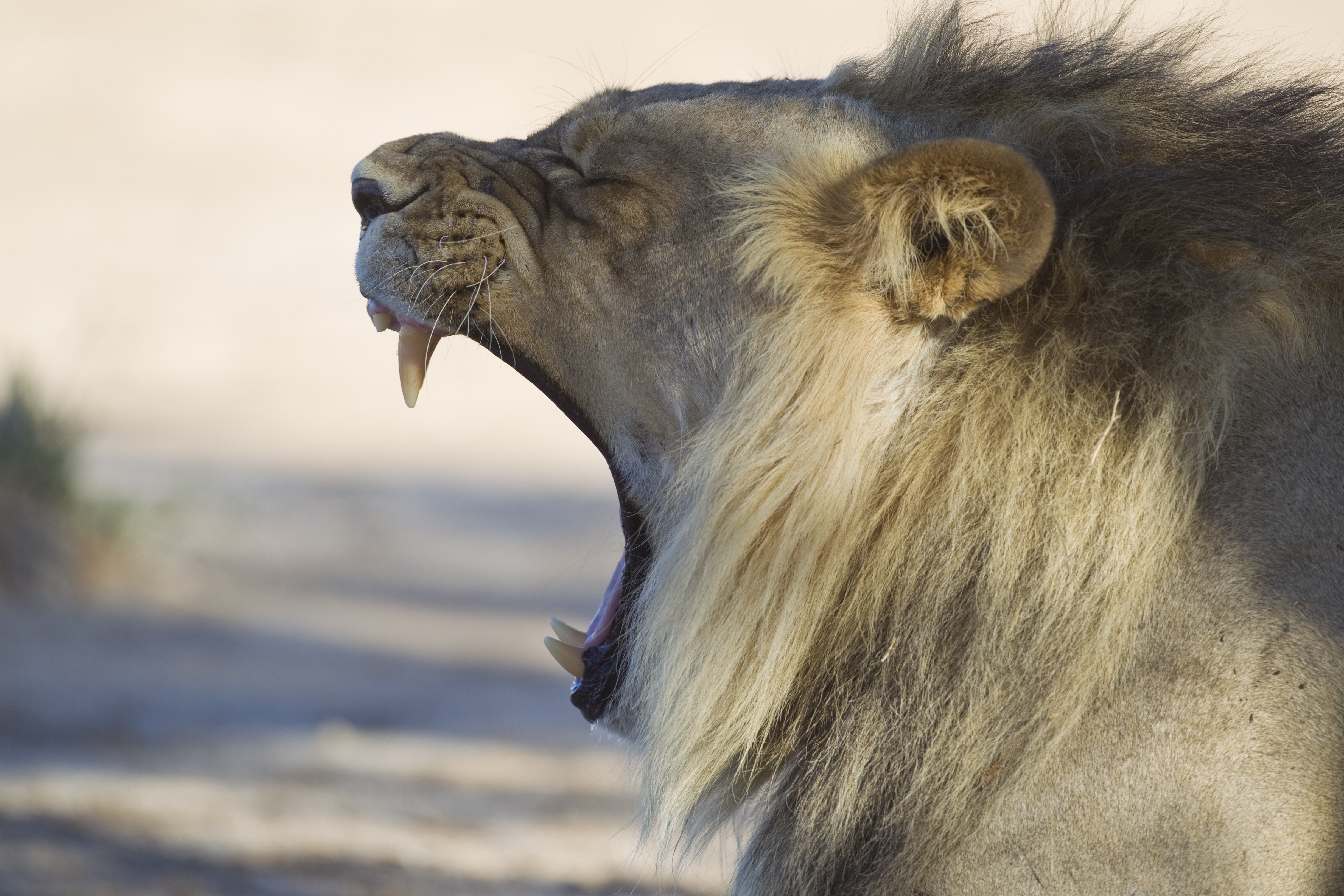 Male lion yawning in the Kgalagadi Transfrontier Park, Botswana/South Africa.